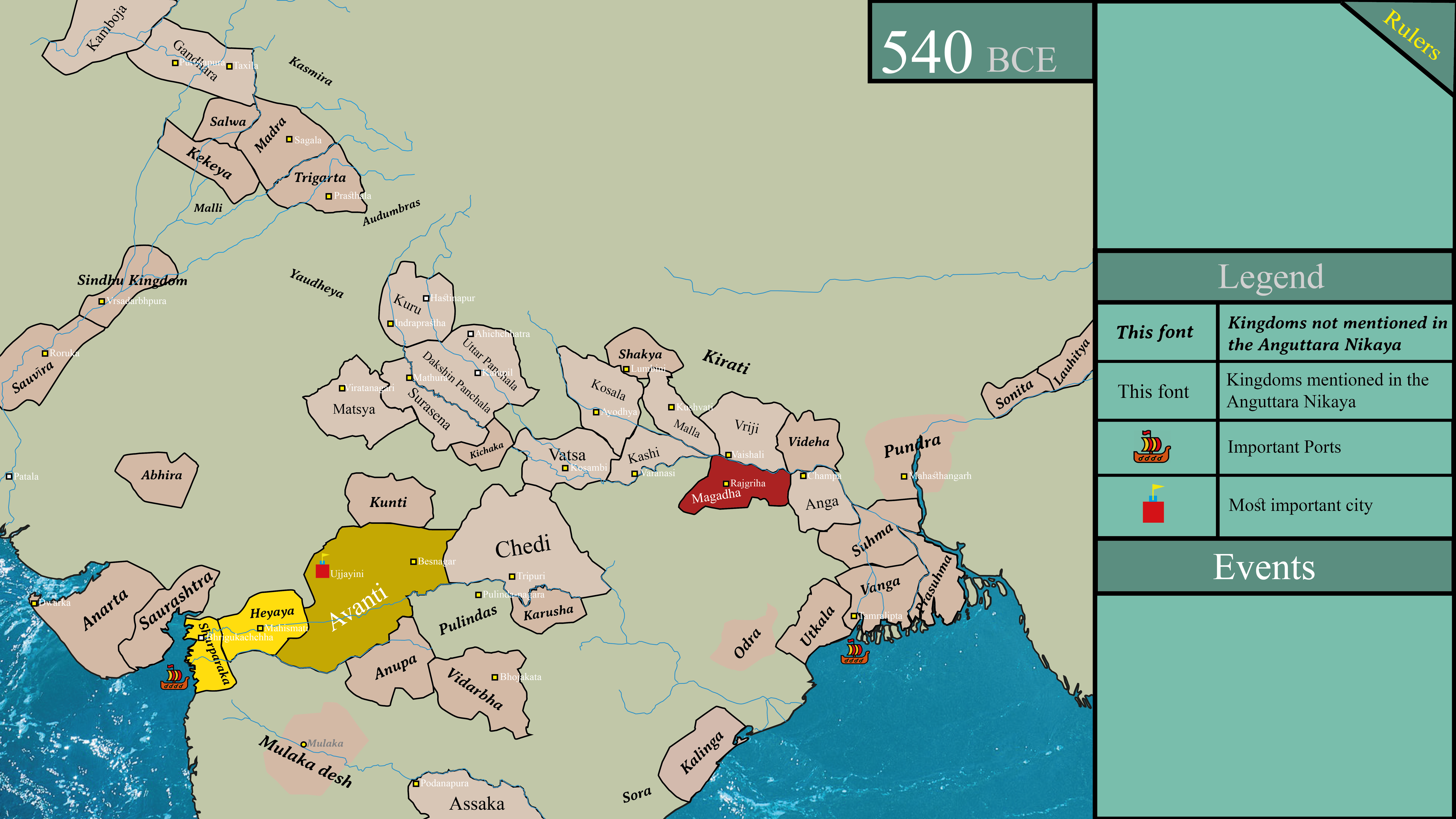 The 16 Mahajanapadas and other Kingdoms of Ancient India circa 540 BCE